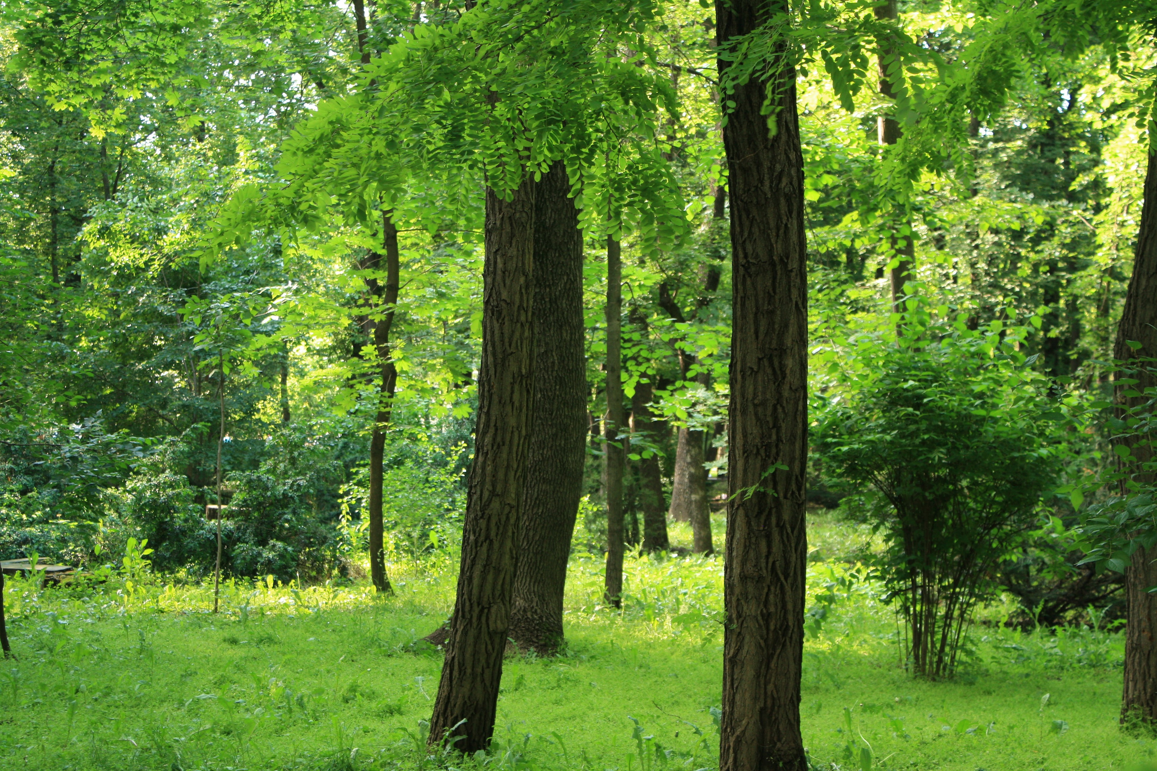 Parcul Copou (perspectivă cu arbori)